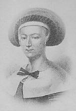 Dorothe Enelbrettsdotter